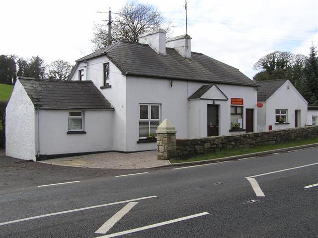 Ballycassidy Post Office It is to the north of St Angelo Airport.